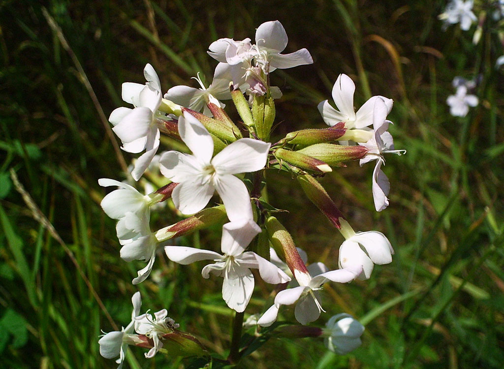 Saponaria officinalis, Caryophyllaceae